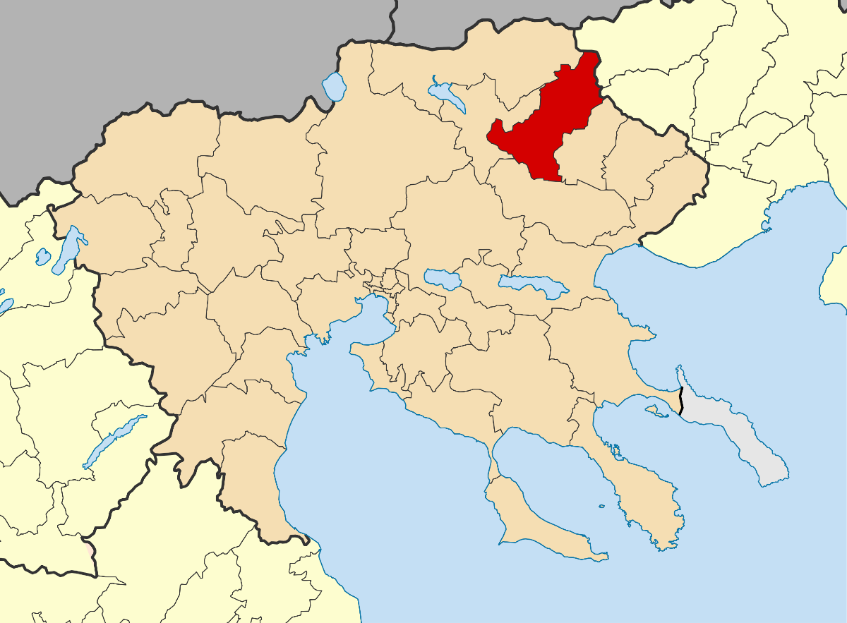 Locator map for Serres municipality in Greek region Central Macedonia (2011)